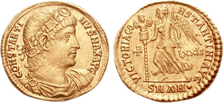 Constantine I. AD 307/310-337. AV Solidus (4.42 g, 12h). Antioch mint. Struck AD 335-336. CONSTANTI-NVS MAX AVG, rosette-diademed, draped, and cuirassed bust right VICTORIA CO-NSTANTINI AVG, Victory advancing left, holding trophy in right hand and cradling palm frond in left arm; (Christogram)-LXXII//SMAN•. RIC VII 100; Alföldi 571; Depeyrot 49/1; Cohen 605. EF, lightly toned. Rare. From the Arthur J. Frank Collection. Ex Münzen und Medaillen AG FPL 318 (November/December 1970), lot 51. The LXXII in the right field on reverse indicates the weight of the solidus; namely, 72 solidi to the pound.